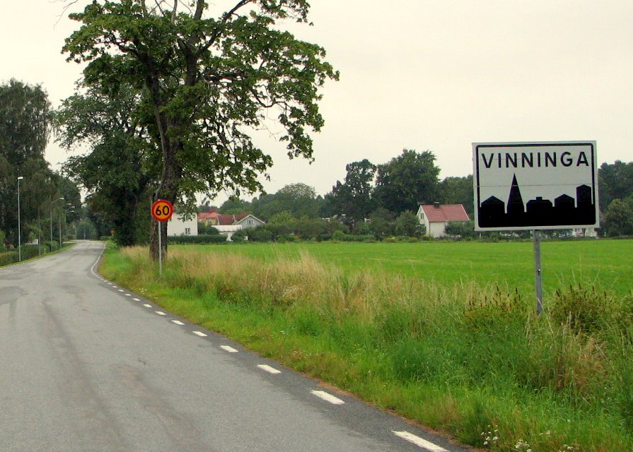 Vinninga village in Lidköping municipality with the (for Sweden at the time) unusual speed limit of 60 km/h